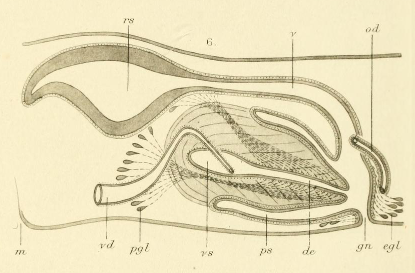 Dugesia annandalei. Diagram of sexual organs in sagittal section. x 100